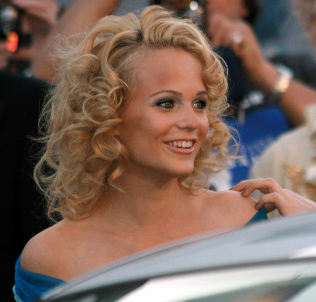 Mirjam Weichselbraun at the Life Ball 2009, Rathaus, Vienna.